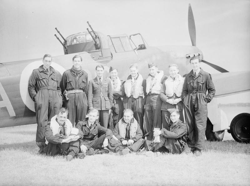 264 Squadron The pilots of 264 Squadron in front of a Boulton Paul Defiant fighter aircraft.